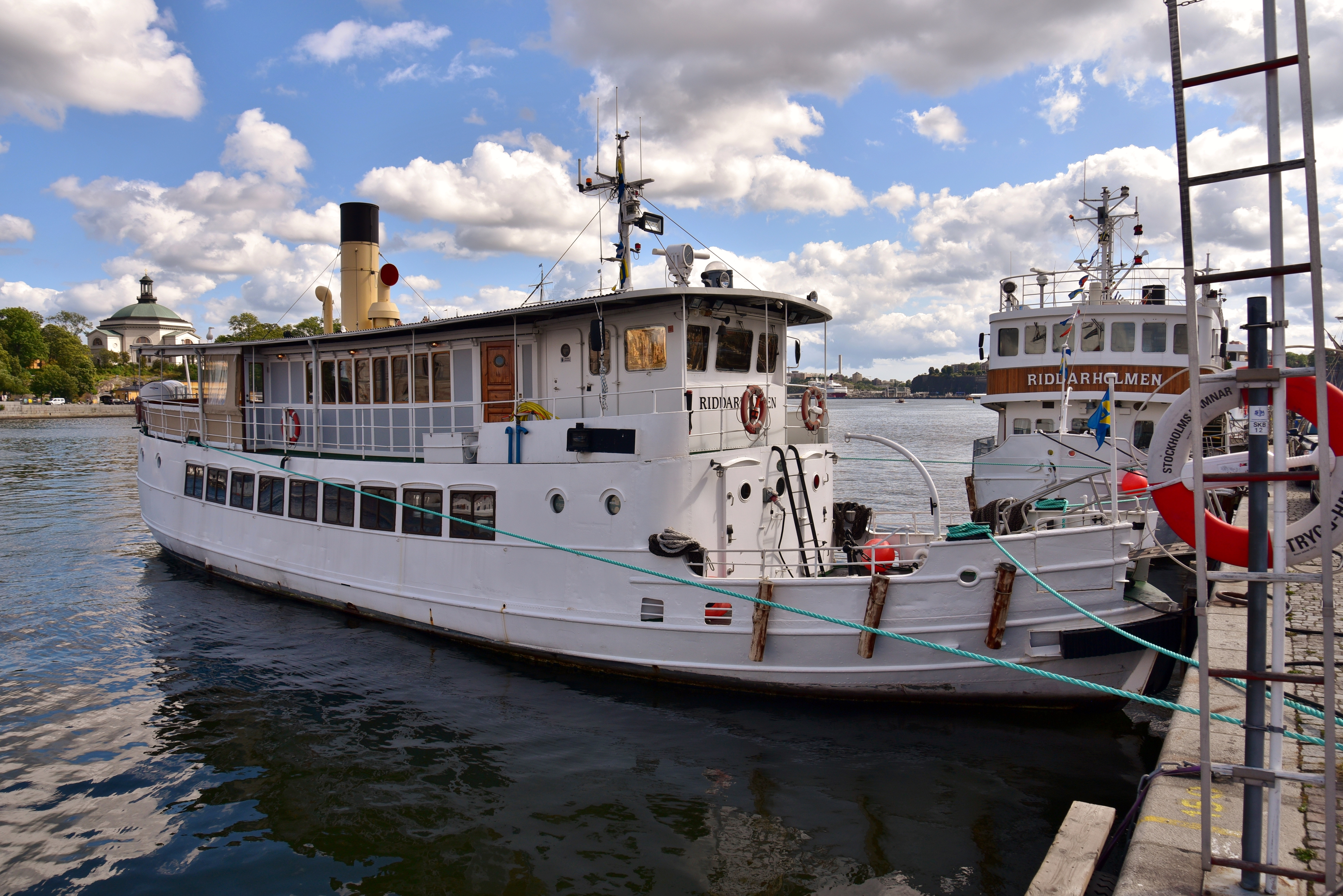 View of the historic passenger ship Riddarfjärden, tied up at Skeppsbrokajen, Stockholm, Sweden